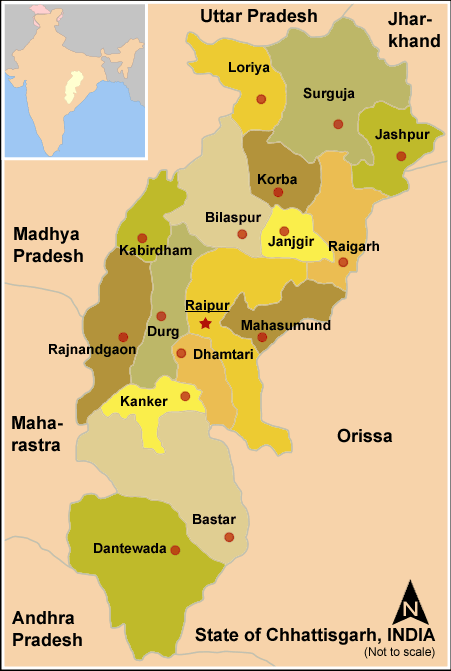 Districts (colored) of Chhattisgarh State (India) - Self Made - User:Miljoshi - Jan 2006 Note: co-ordinates are estimated, and may not be exactly accurate.